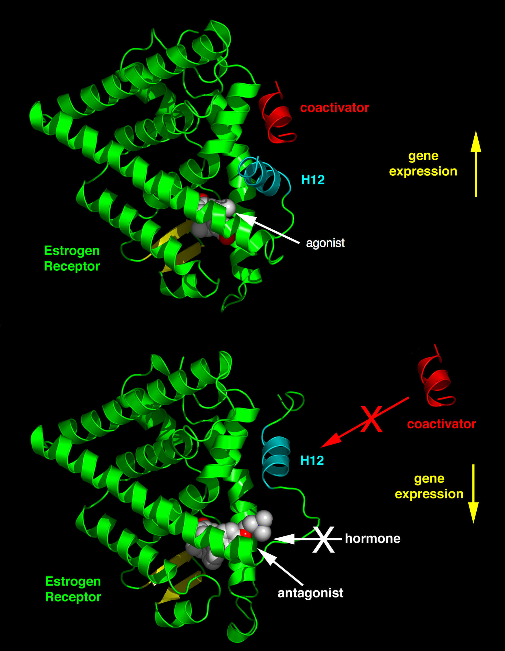 Created myself using Pymol and structures downloaded from